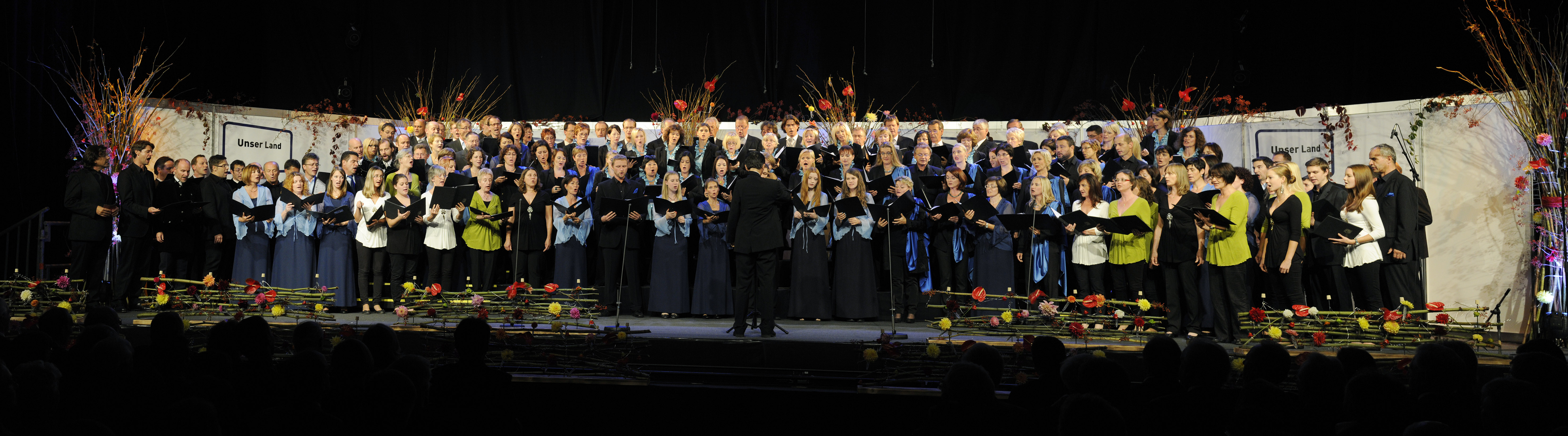 Concert of five German and Slovene Carinthian choirs on 02/10/2012 in the fully booked hall with 1414 guests in Klagenfurt in Carinthia / Austria / EU. There are 18 world premieres were sung. It was an event of the reconciliation initiative "Our Land" between German and Slovenian-speaking Carinthian. Photographer of the Panorama shooting was Walter FRITZ from Klagenfurt. About 120 singers (men and women) throughout dark blue, black, light green and well dressed, white on stage.